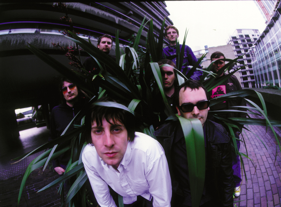 A publicity photograph of the Regular Fries